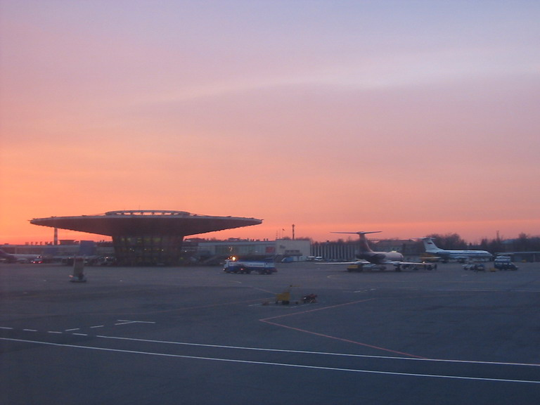 International Airport Sheremetyevo: Domestic terminal (Sheremetyevo-1)